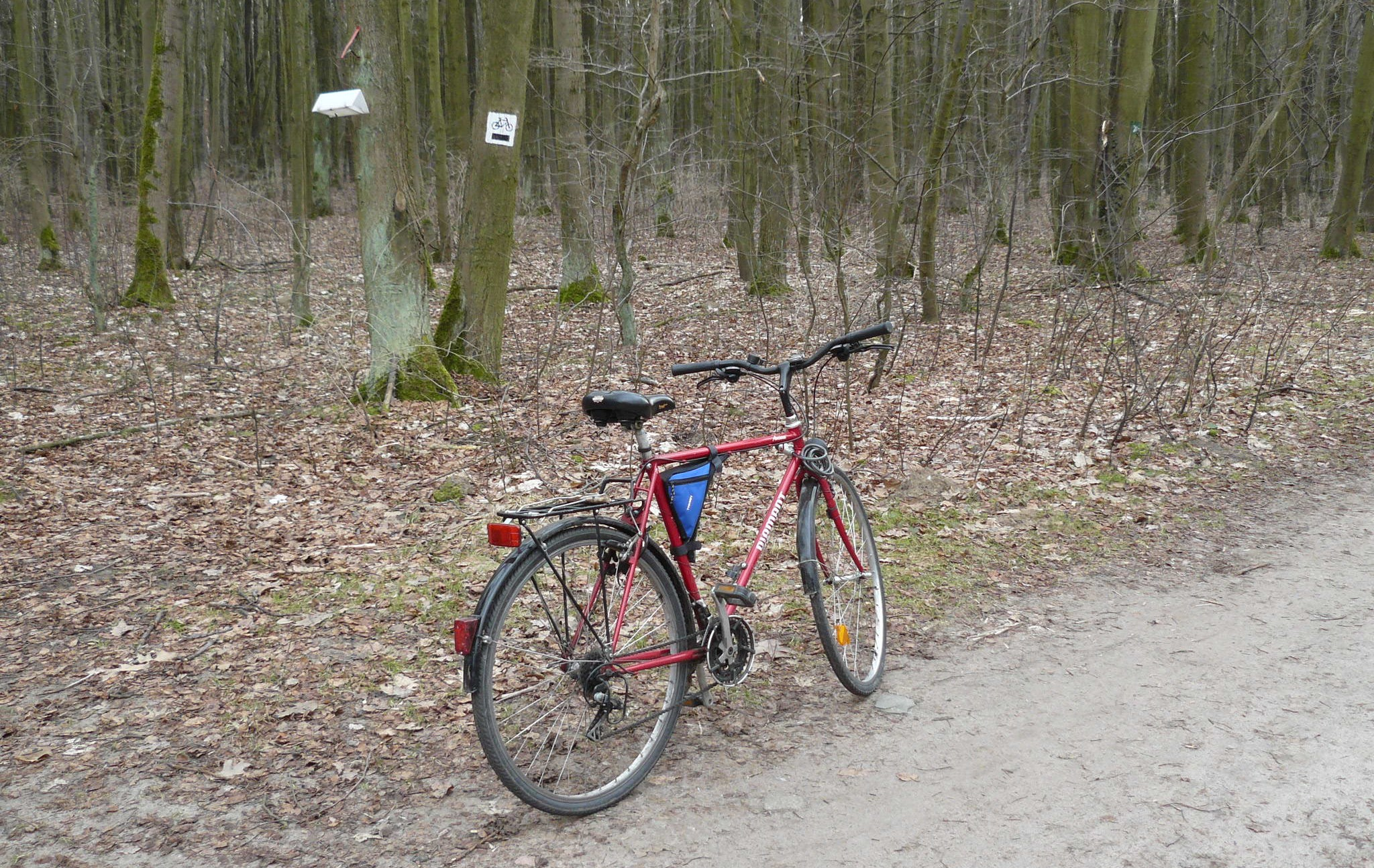 Marceliński Forest - Poznań, Bike-Route, Poland. Diamant bicycle.